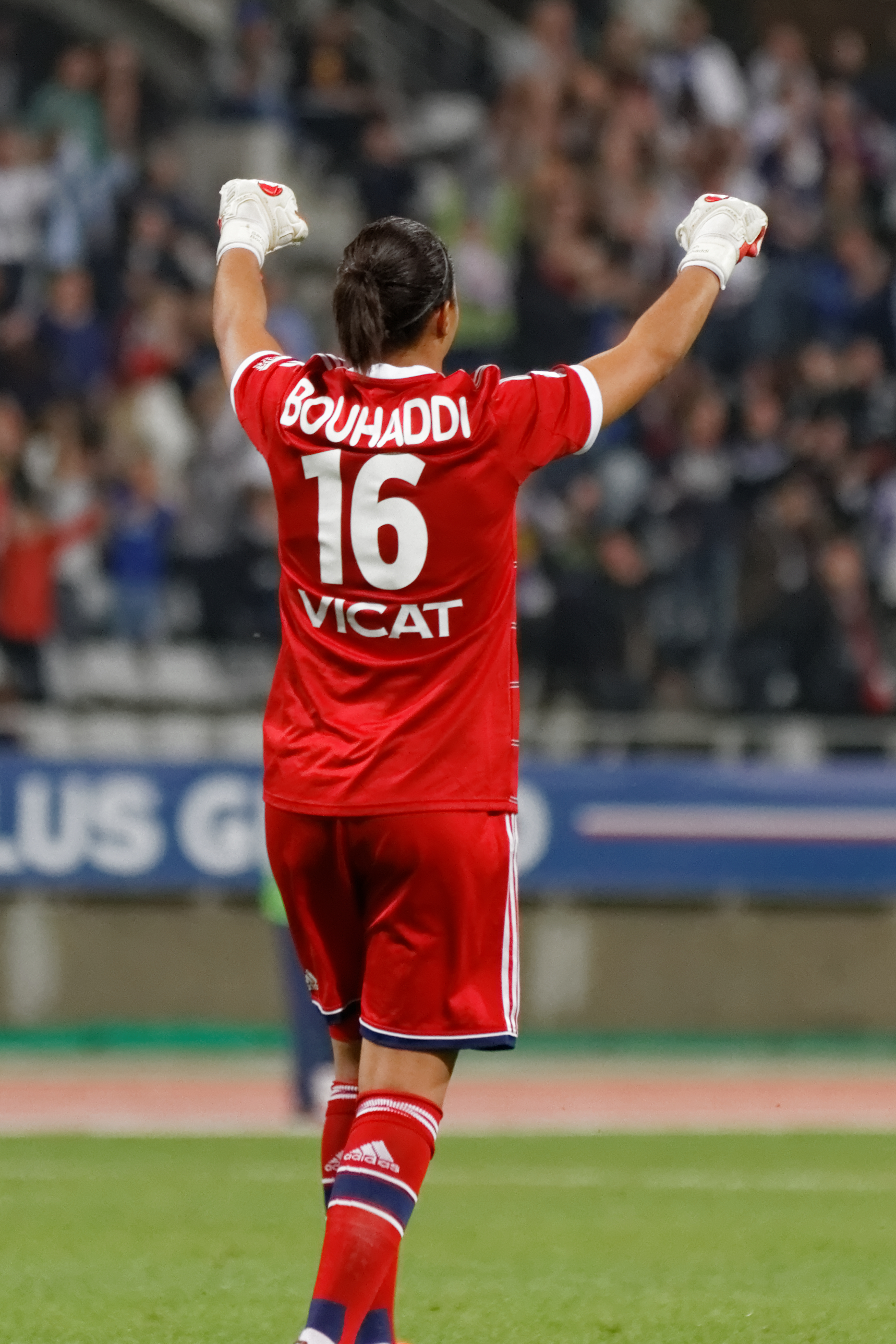 PSG-Lyon, September 29th, 2013.